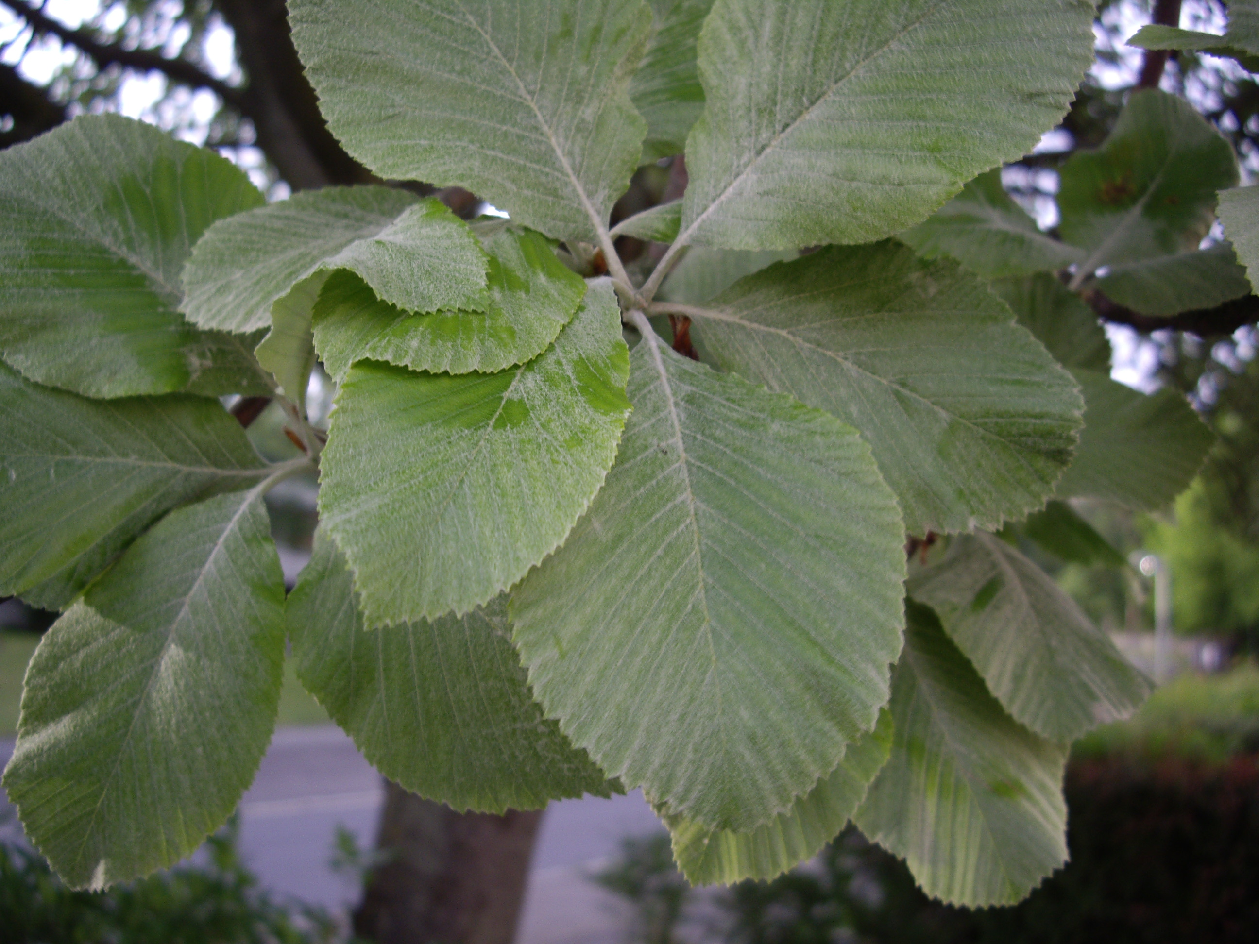 Sorbus aria, Göttingen, 02 June 2013. Upper side of leaves. Photo: Francisco Welter-Schultes